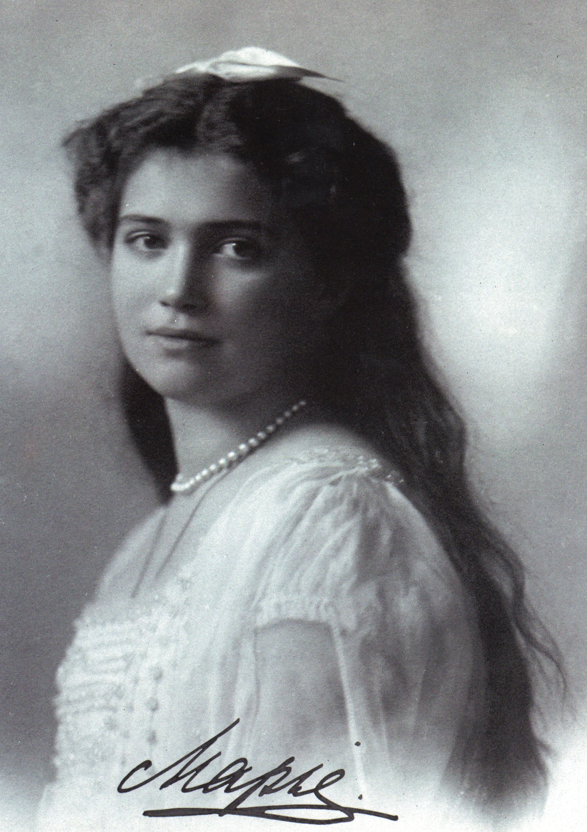 Grand Duchess Maria Nikolaevna of Russia autograph card.Interesting tidbit: Until his own assassination in 1979, her first cousin, Louis Mountbatten, 1st Earl Mountbatten of Burma, kept this photograph of Maria beside his bed in memory of the crush he had upon her.